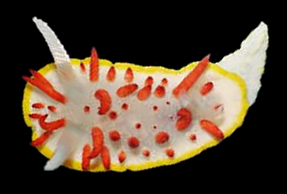 Photo of dorsal view of a live Diaphorodoris papillata.